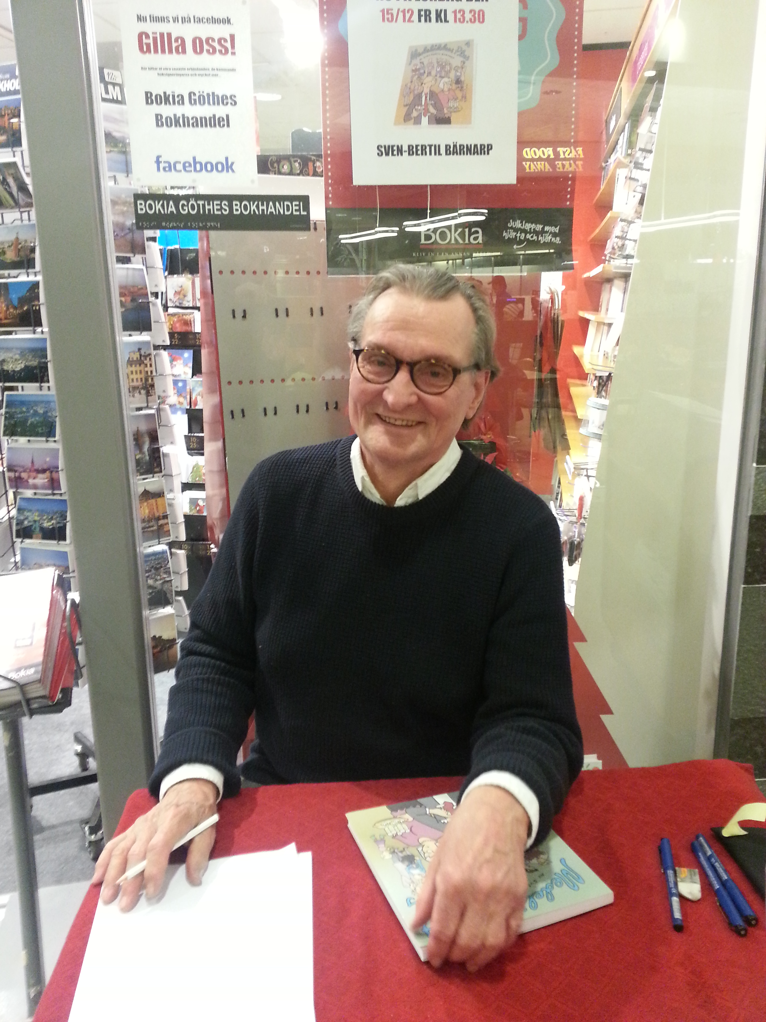 Sven-Bertil Bärnarp, author of the comic Medelålders Plus, signing books in Stockholm, december 2012.